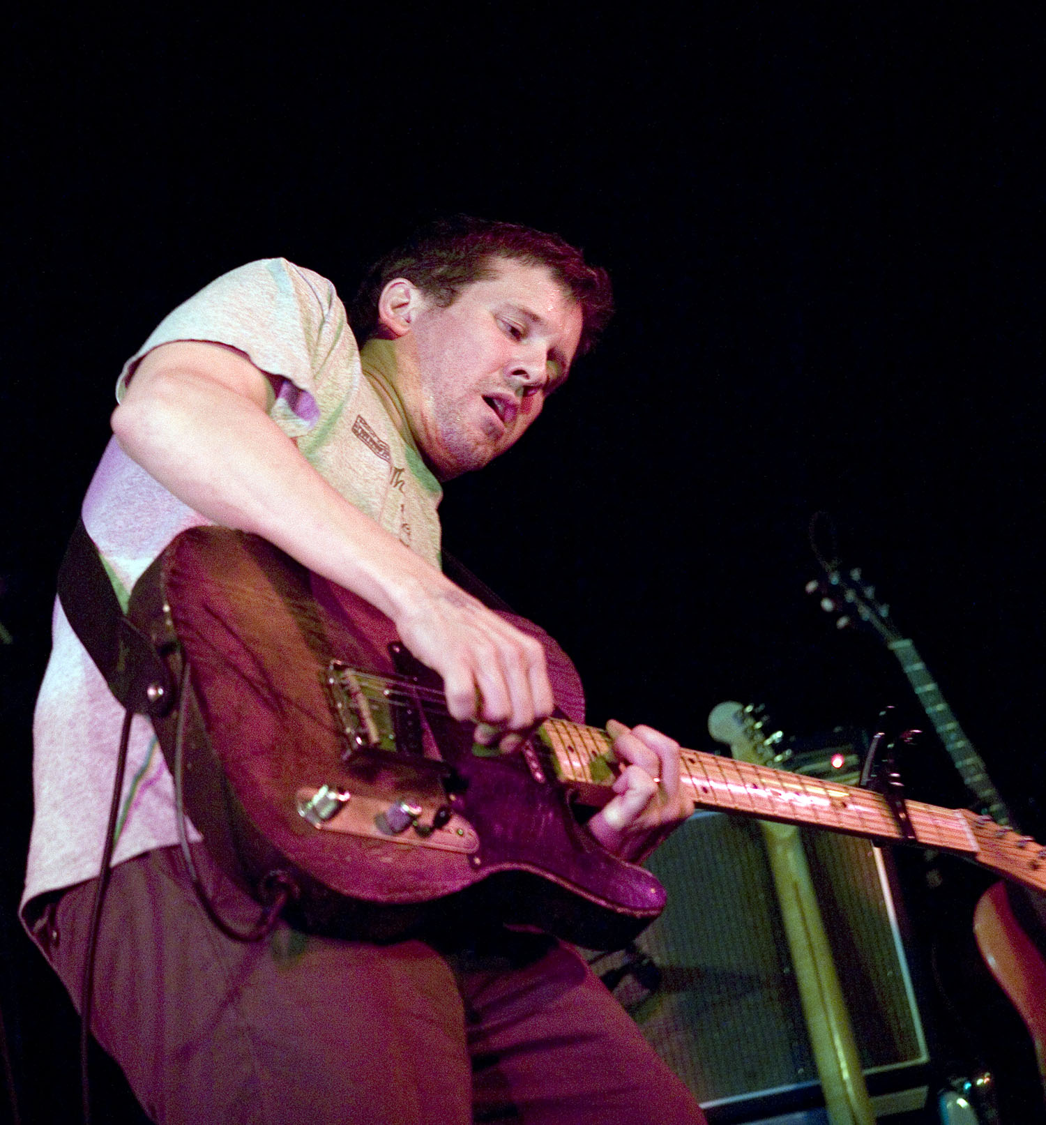 Mac McCaughan of Portastatic in concert at the Black Cat